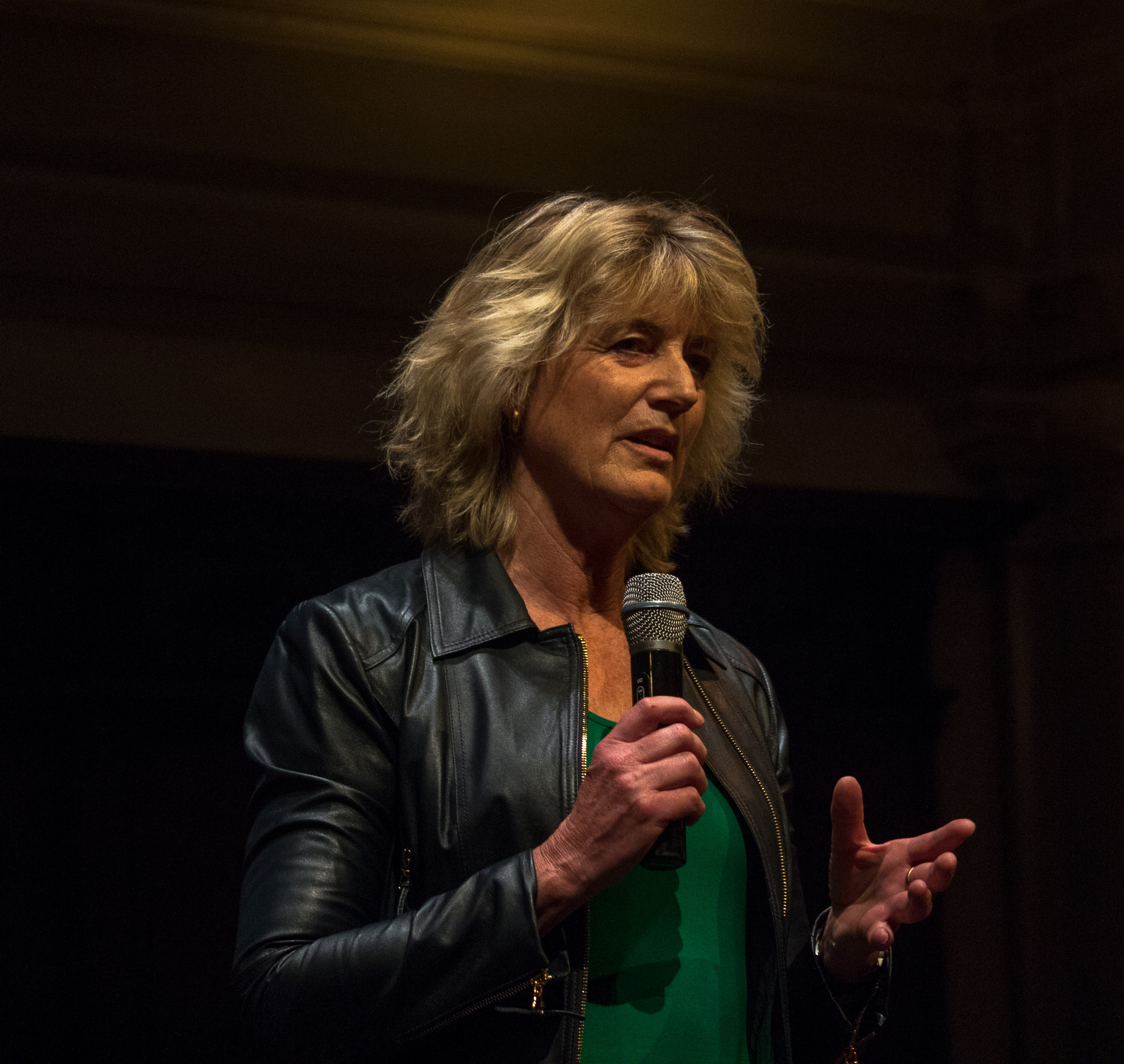 Maria Henneman at the fundraising party for the second volume of the book "1001 vrouwen"